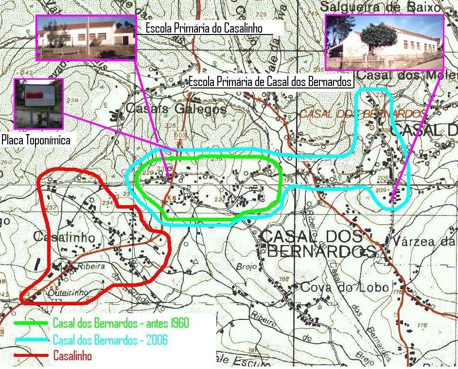 Descrição da bipartição do lugar de Casal dos Bernardos.